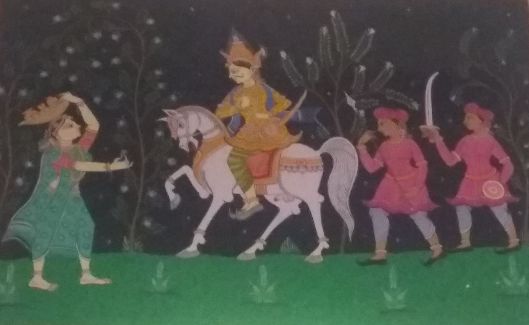 A traditional wall painting at a Jagannath temple in Bangalore, depicting the return of Gajapati Purushottam Deva from Kanchi expedition and meeting Manika on the way as in a Odia folklore.